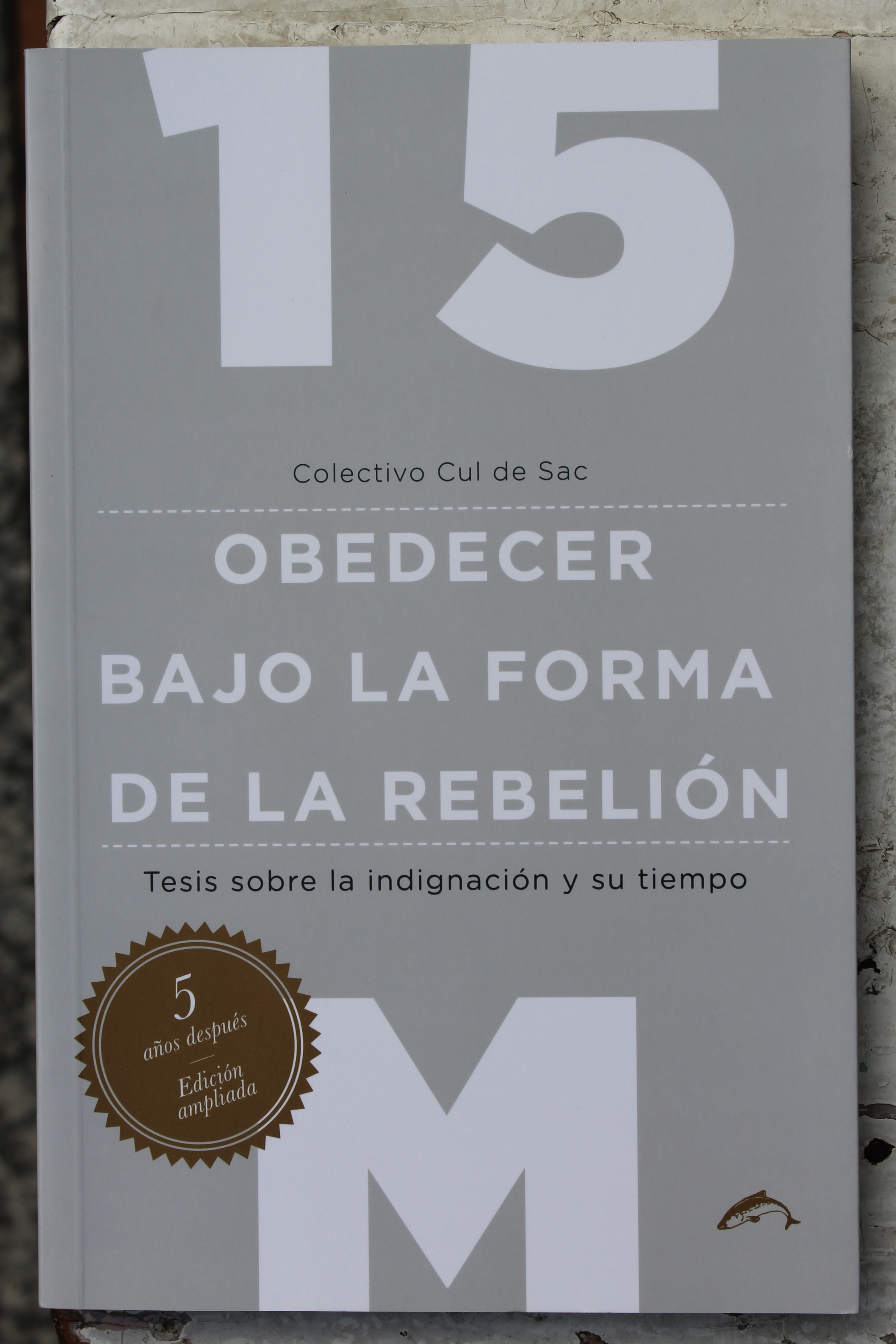 Obedecer bajo la forma de la rebelión, Colectivo Cul de sac (Book cover)